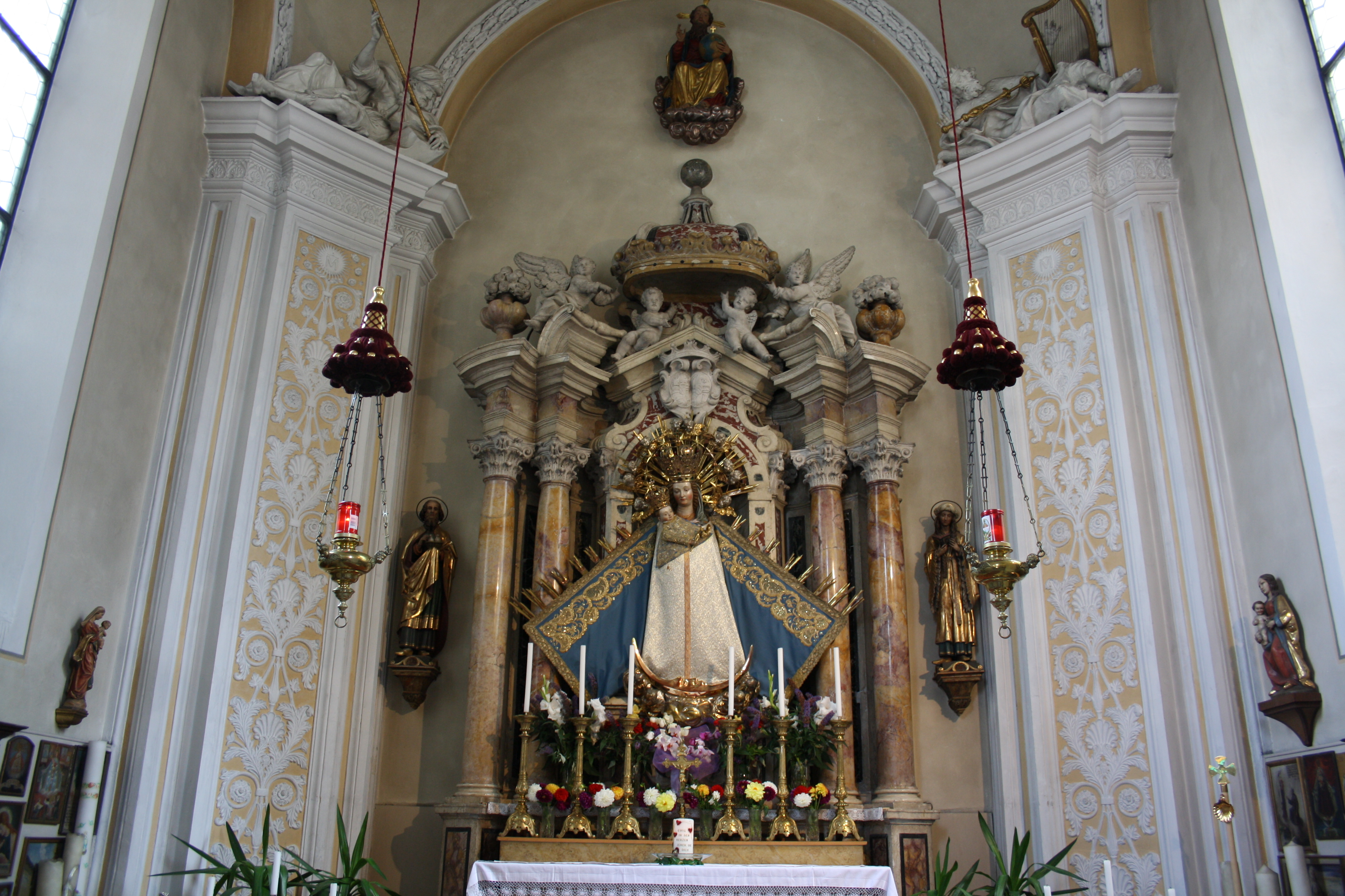 Italy, South Tirol, Freienfeld, Sanctuary Maria Trens. Trens is also a place of pilgrimage, the church is dedicated to the miraculous image of “Our Lady of the Avalanche”, the ancient wooden statue of the “Madonna standing and the Child”, dating back to 1470. According to a legend a farmer found a wood carved statue among the debris of a landslide and carried it to his house. The following day the statue was founded in a chapel and the people began to venerate it. In a document dated September 10, 1345 it is mentioned for the first time of a church in Trens, in 1407 the family Trauston appointed a weekly Mass to be celebrated on Tuesday in the church. The present church was built in 1498 in Late Gothic with two main entrance; in order to ease the construction the priest of Stilves obtained a “littera indulgentiarum” from twelve cardinals in 1482. The chaplain of the deanery of Trens received in 1648 the commission to say Mass every day in Trens; the pilgrimages to the church increased. The “Chapel of Our Lady” was inaugurated on March 29, 1728 and take place on the left side of the nave with the wall covered by the numerous votive offering. At the half of 18th century the church underwent to a restoration in Baroque on project by Joseph Adam Ritter von Mölk. The miraculous image was crowned in 1928 and the church became parish in 1939.